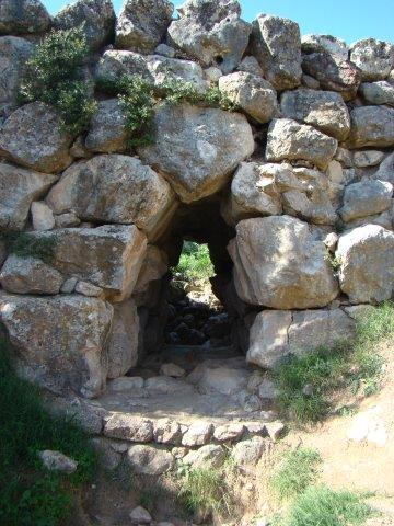 Mycenaean Bridge, Arkadiko village